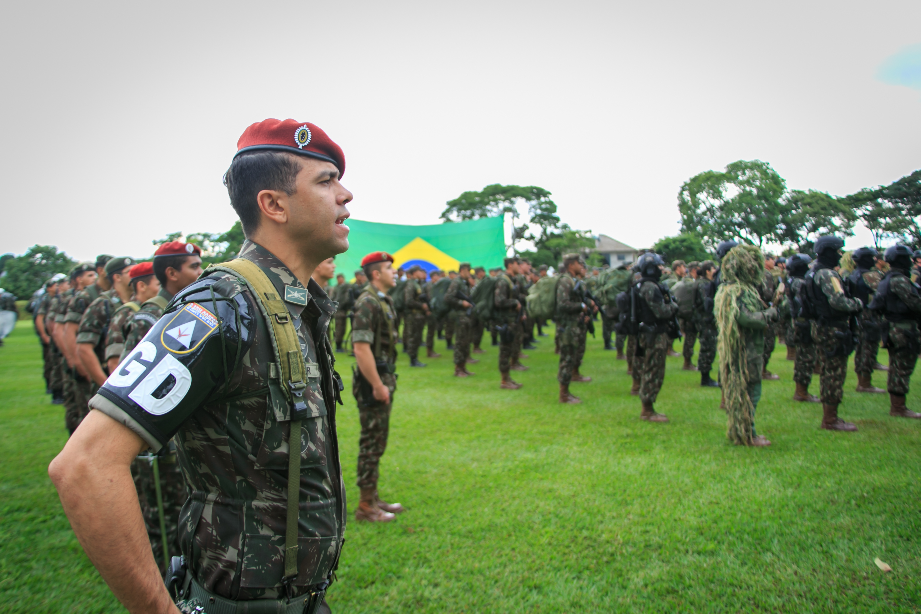 Foto: Alexandre Manfrim